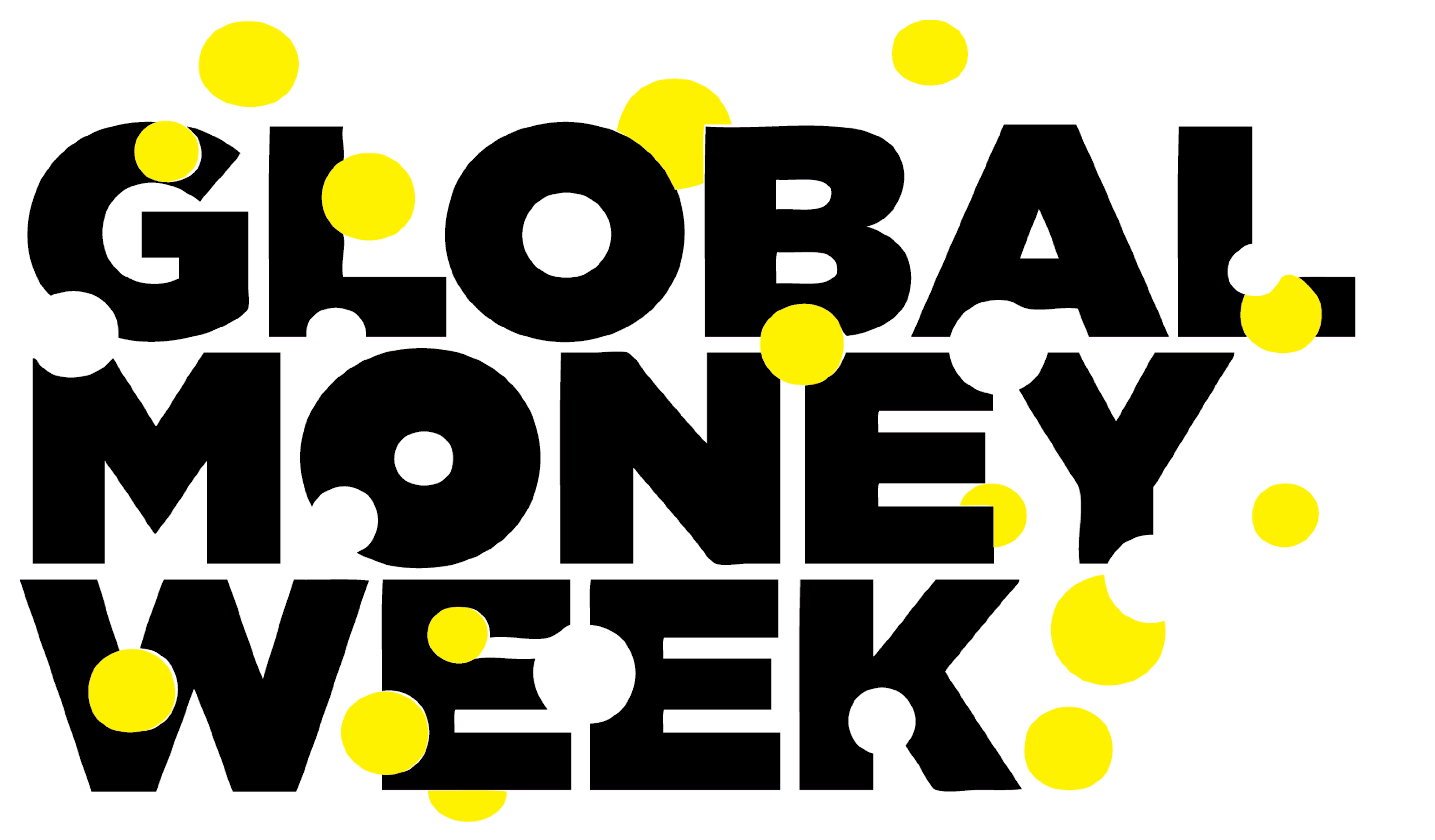 Black GMW text with yellow 'coin' dots